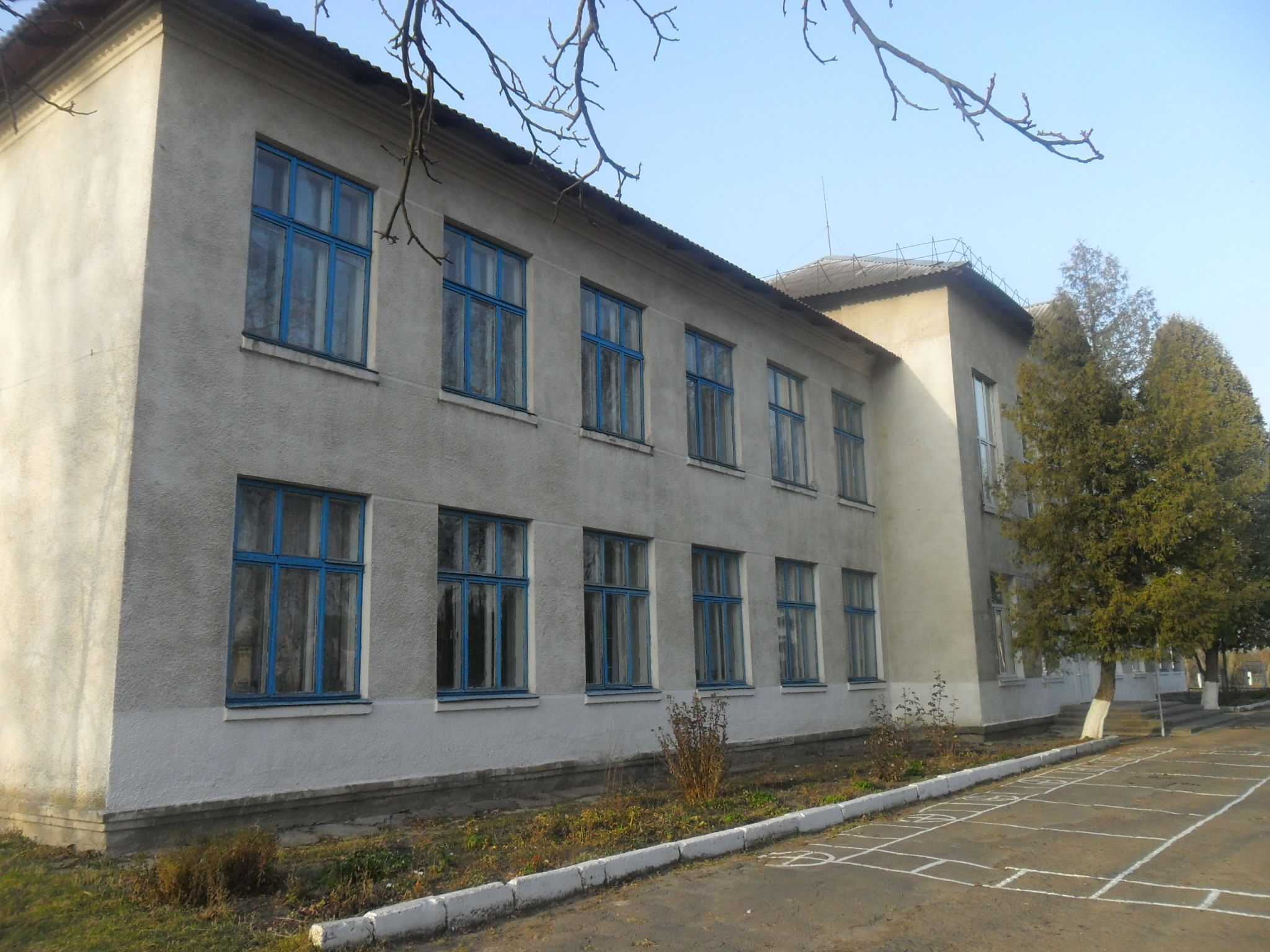 Школа Доросині